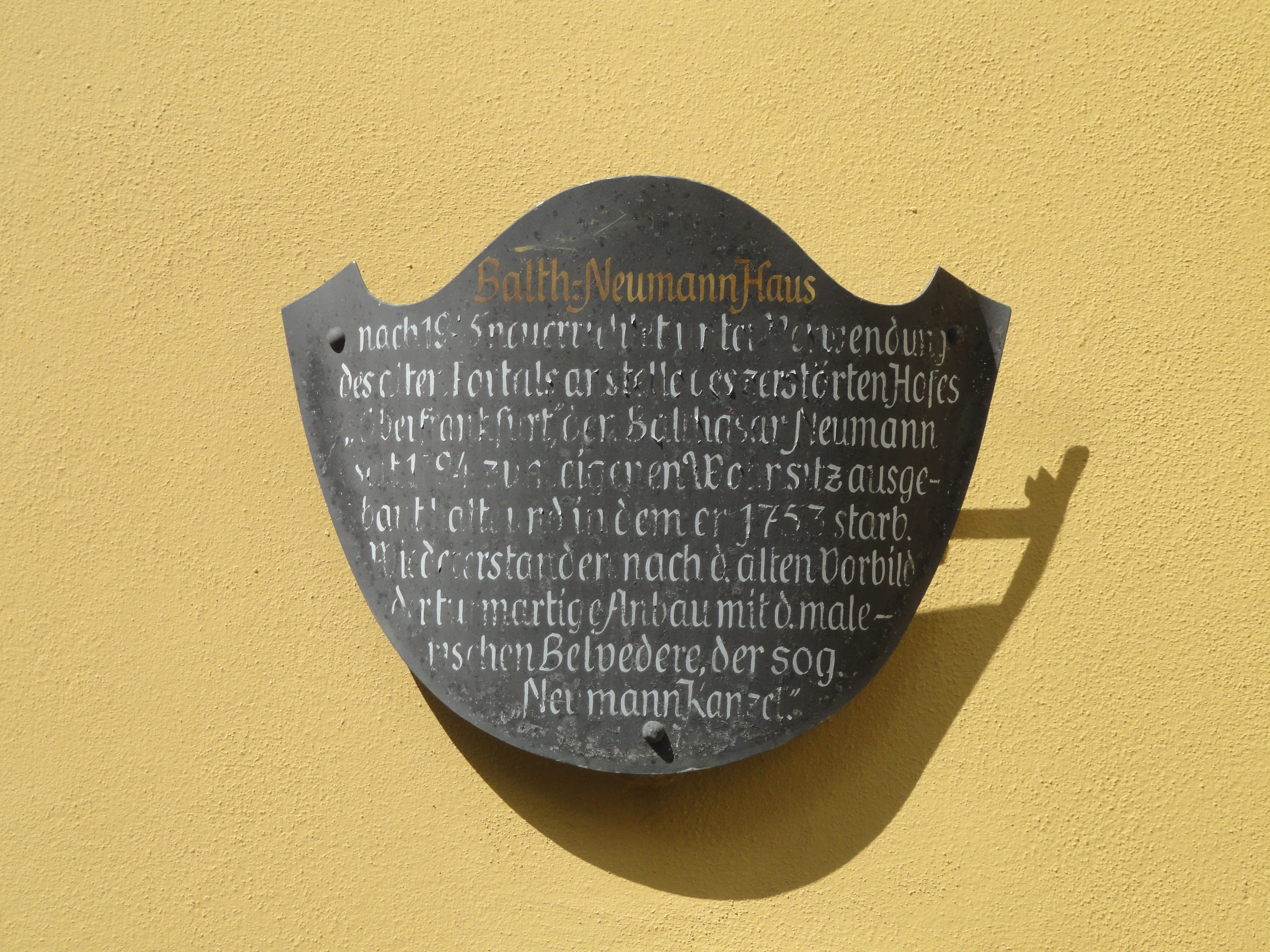 Balthasar Neumann Haus, Würzburg, Germany. Once home of architect Balthasar Neumann.